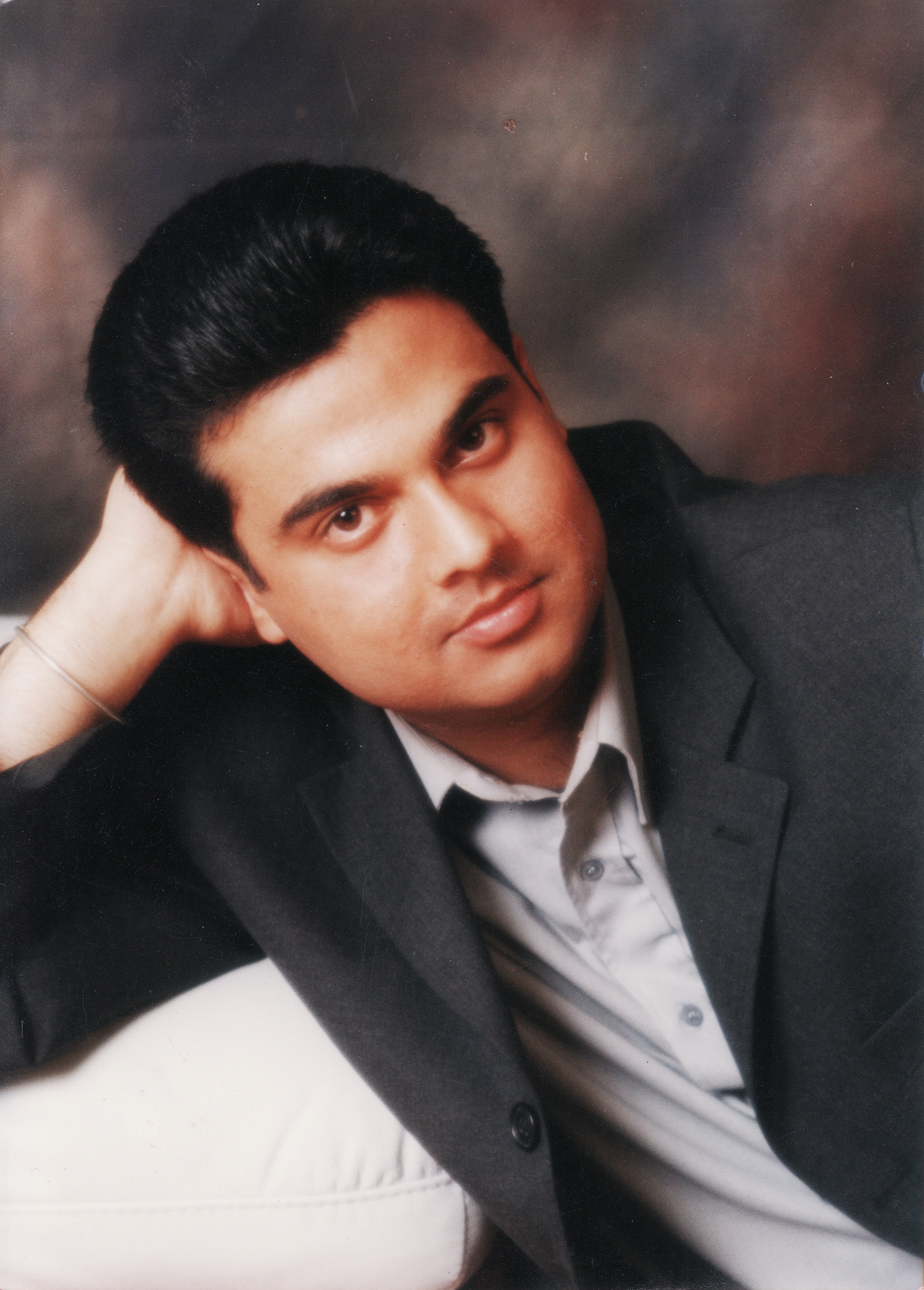 Raja Kaasheff video shoot Pyar Kar Le